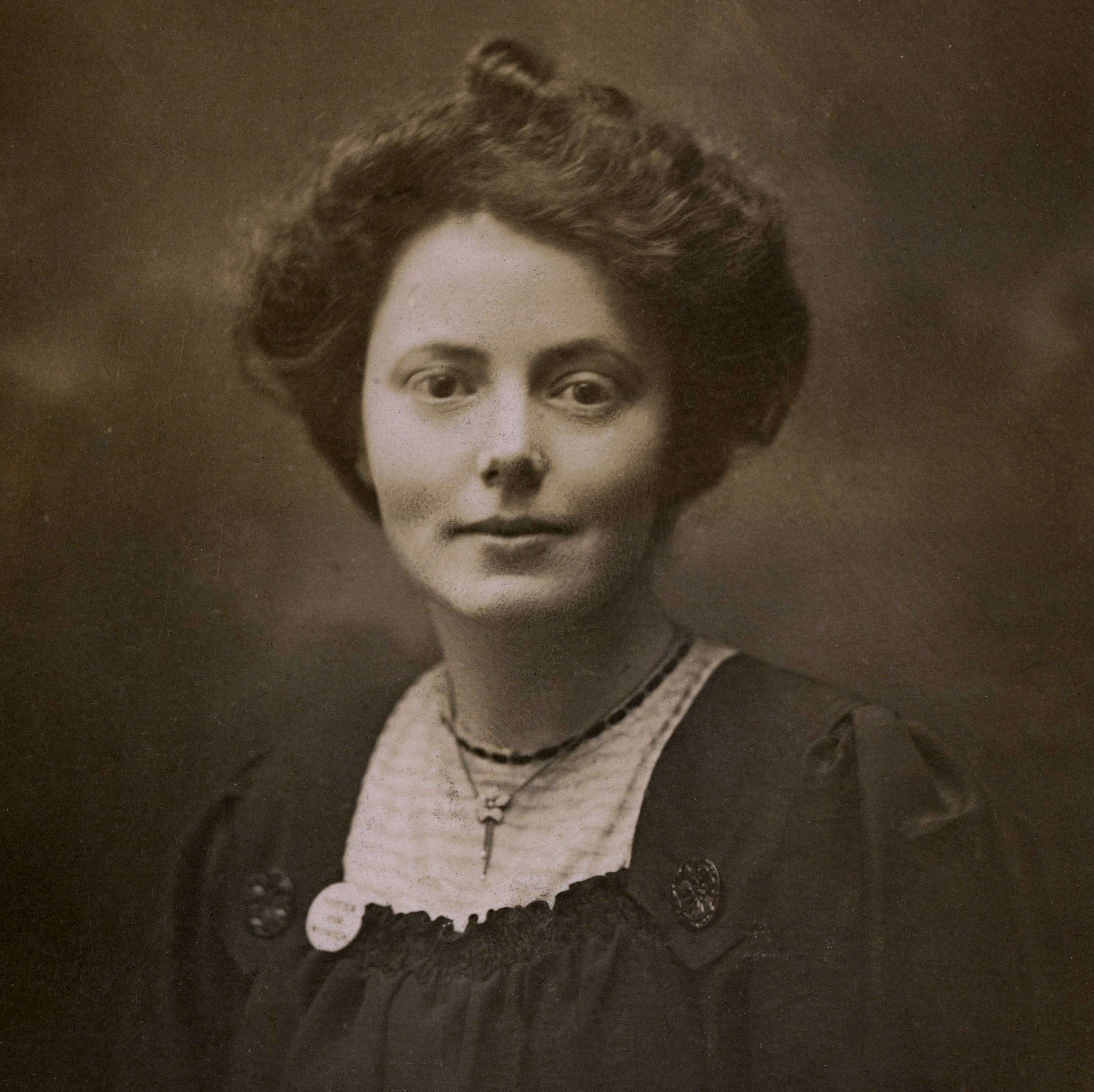 7JCC/O/02/153 Photograph, printed, paper, monochrome studio portrait of Mary Gawthorpe, head and shoulders, front profile; manuscript inscription on reverse 'Mary Gawthorpe 1908'